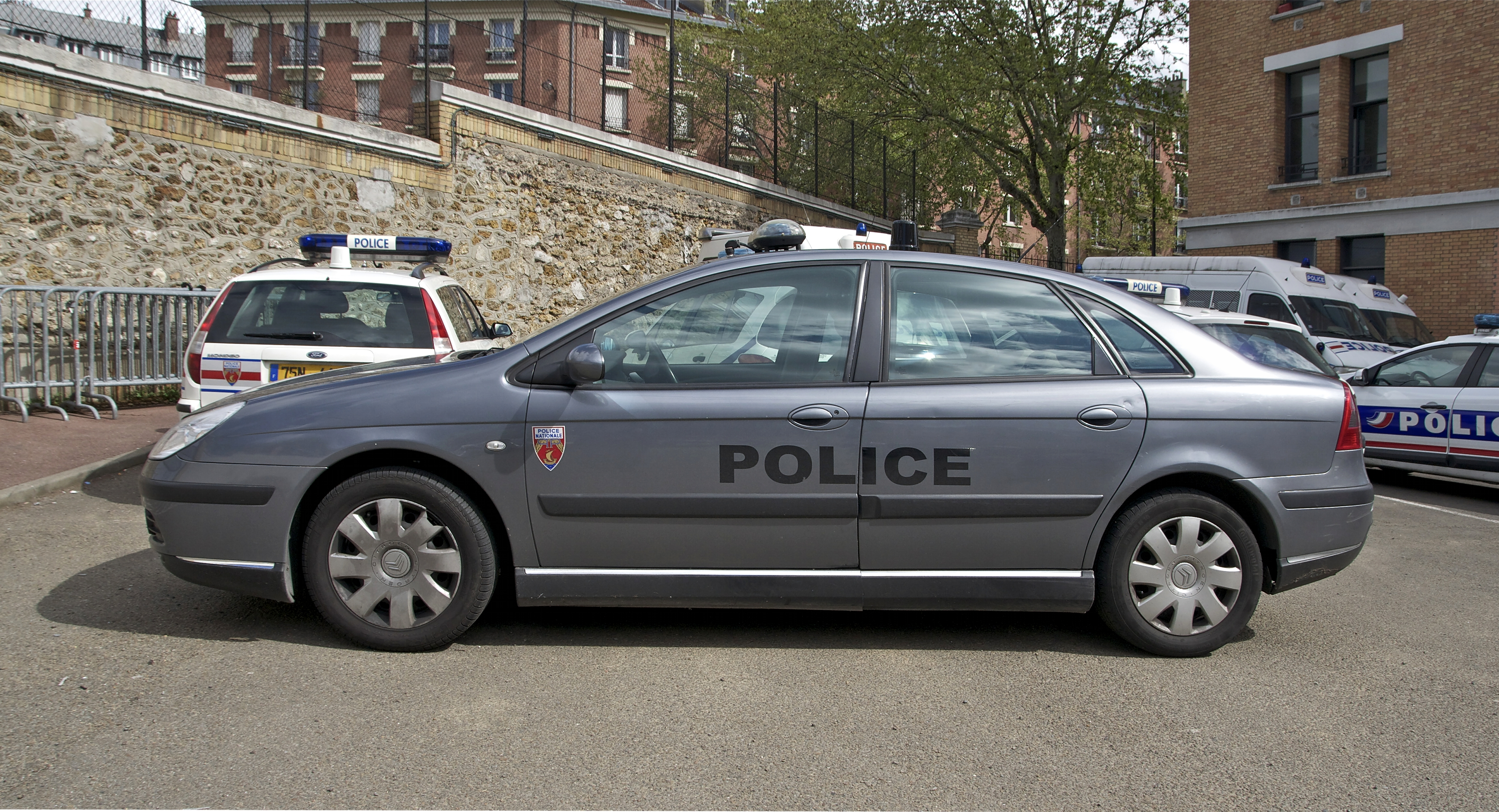 A grey Citroën C5 of the french national parisian police.